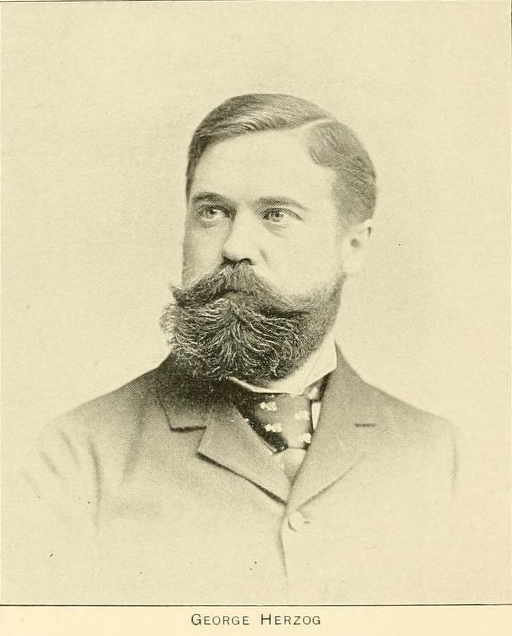 Photograph of artist & decorator George Herzog (1851-1920).